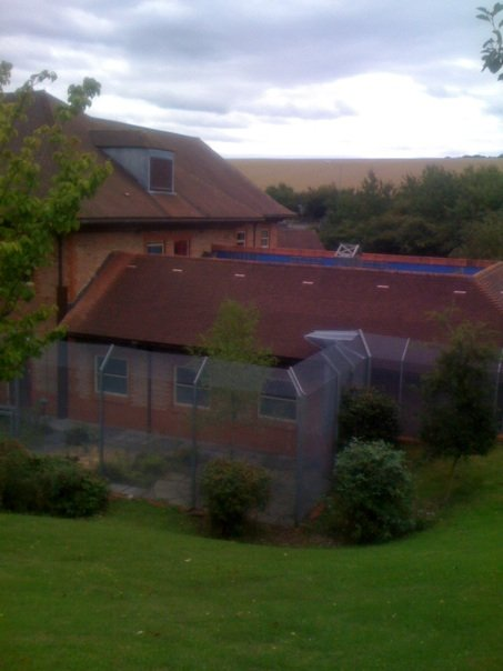 Haleacre Unit External Shot